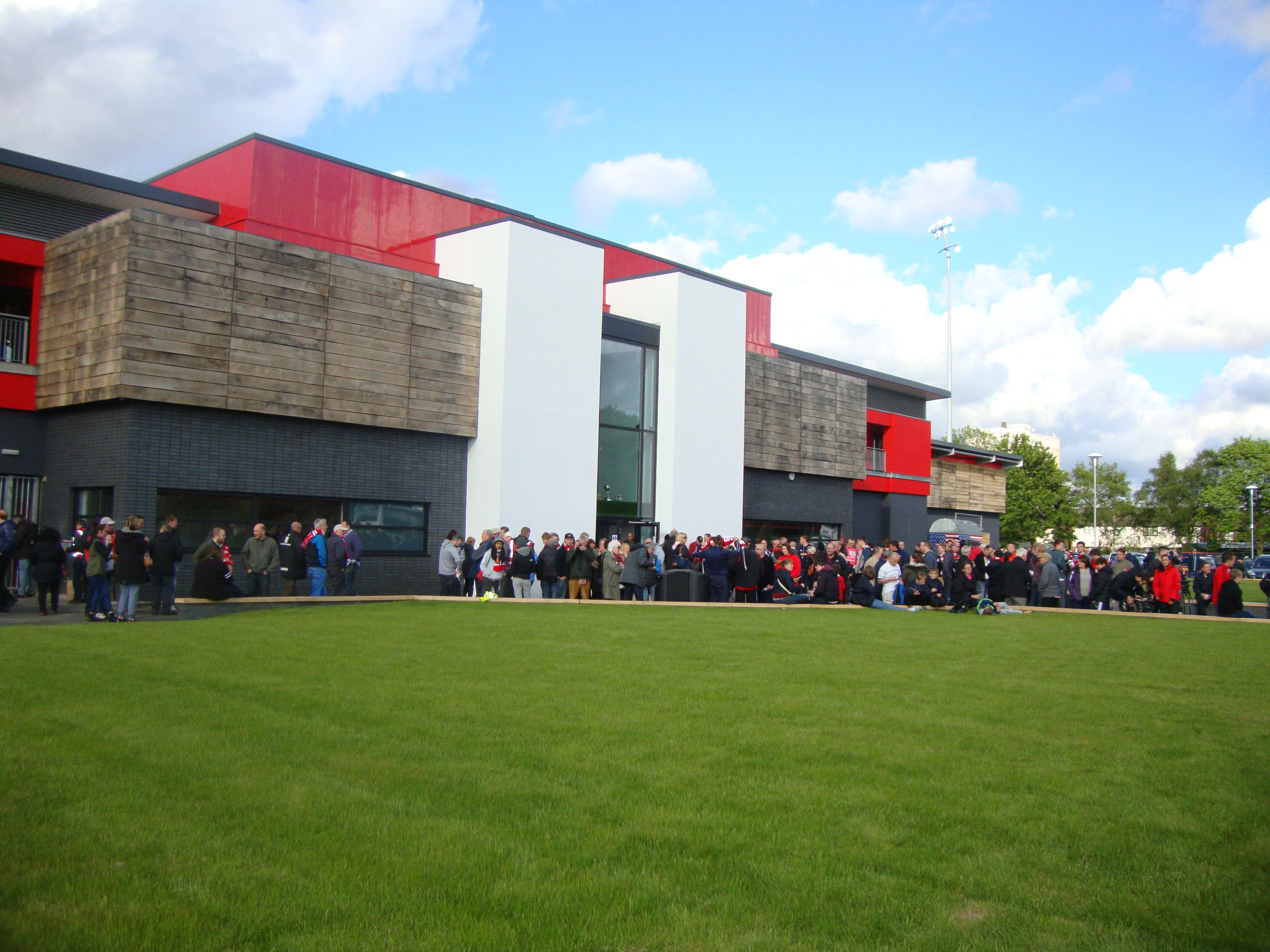 Broadhurst Park main emtry (opening ceremony, May 29, 2015)